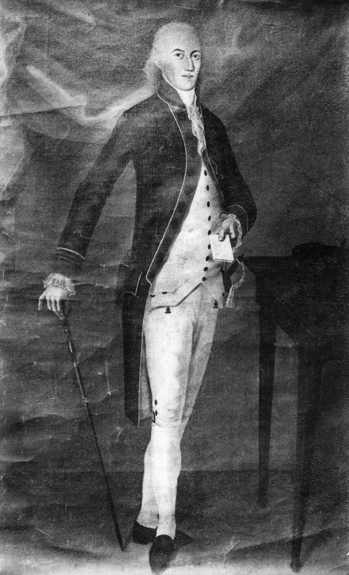 Depiction of Don Miguel Nemecio Silva de Peralta de la Cordoba, the fictional First Baron of Arizona (Age 30). Persona was created by James Addison Reavis as part of the Peralta-Reavis land grant fraud.